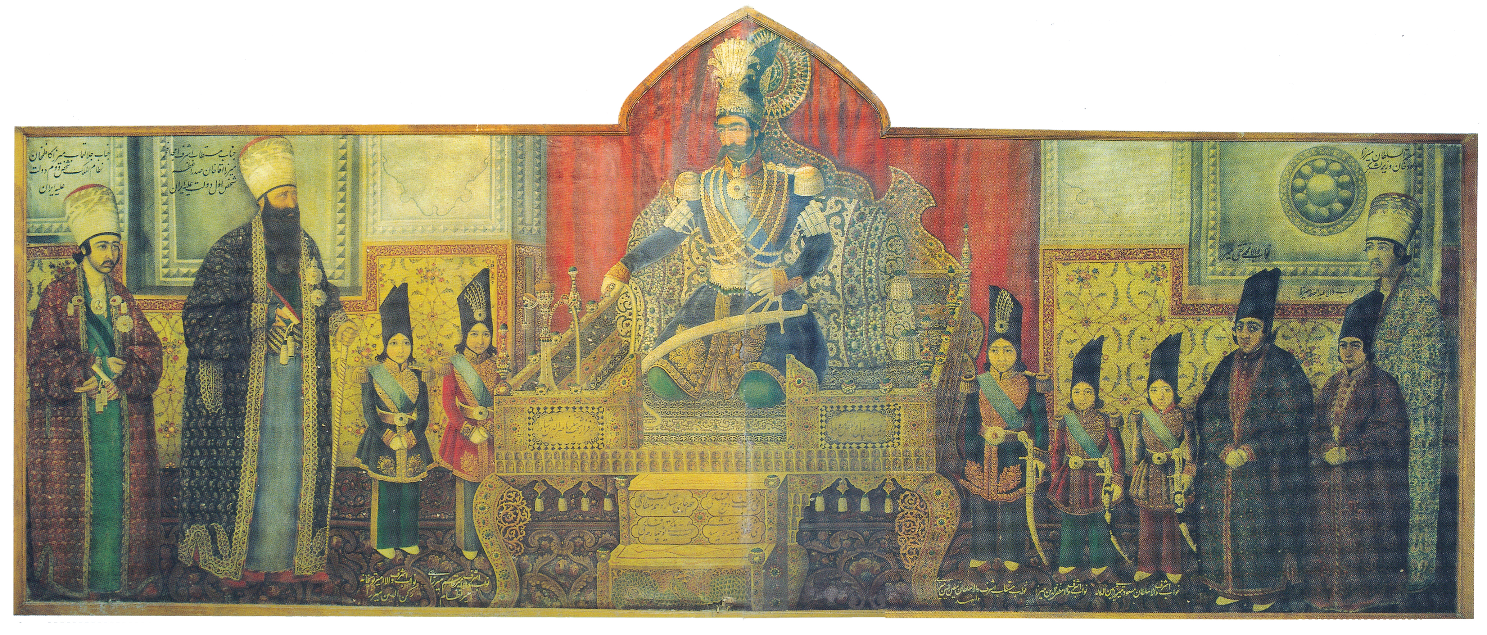 Nezāmiyeh Hall Panel Oil on canvas Golestan Palace Museum